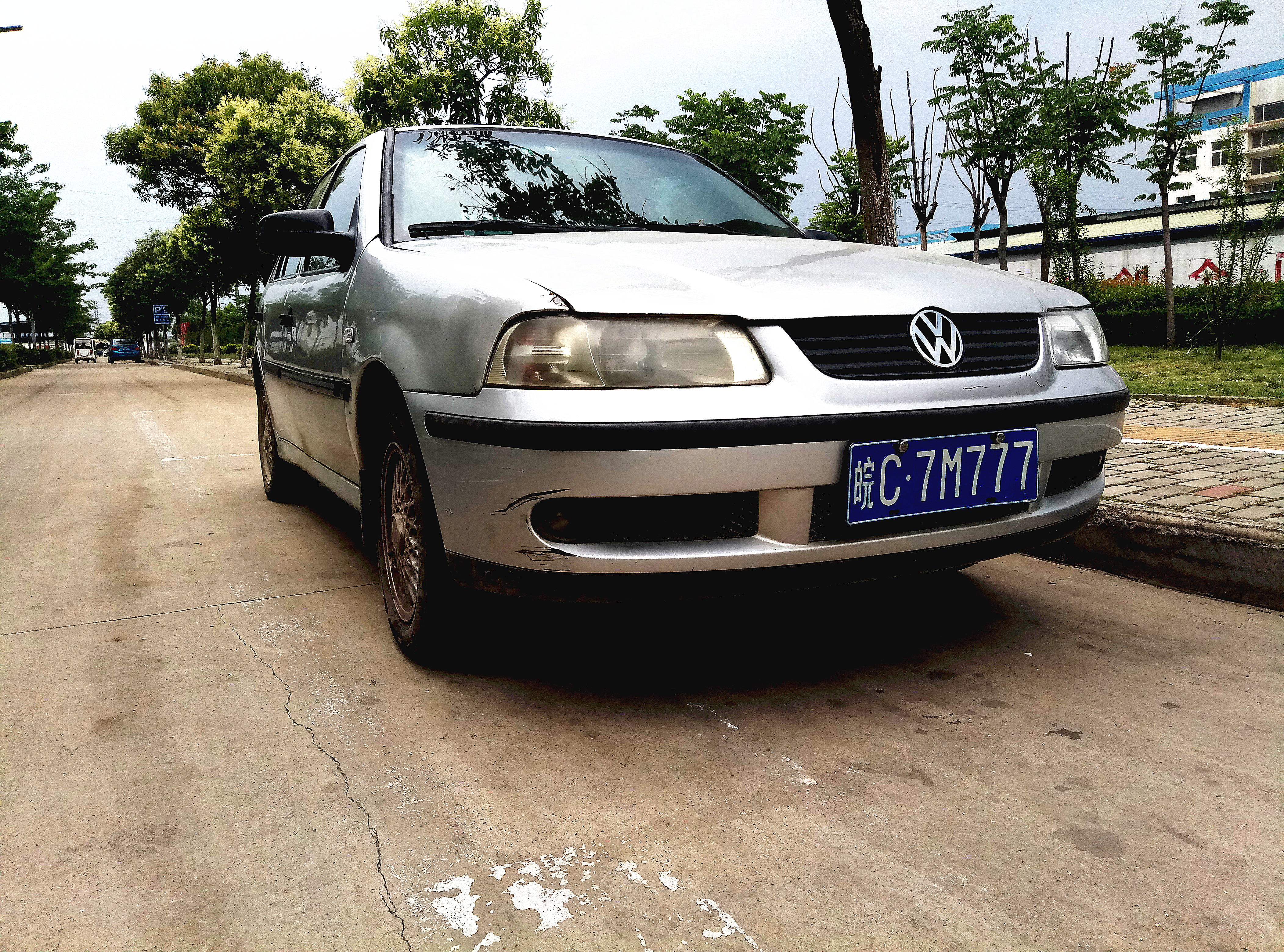 Volkswagen Gol G3 in China